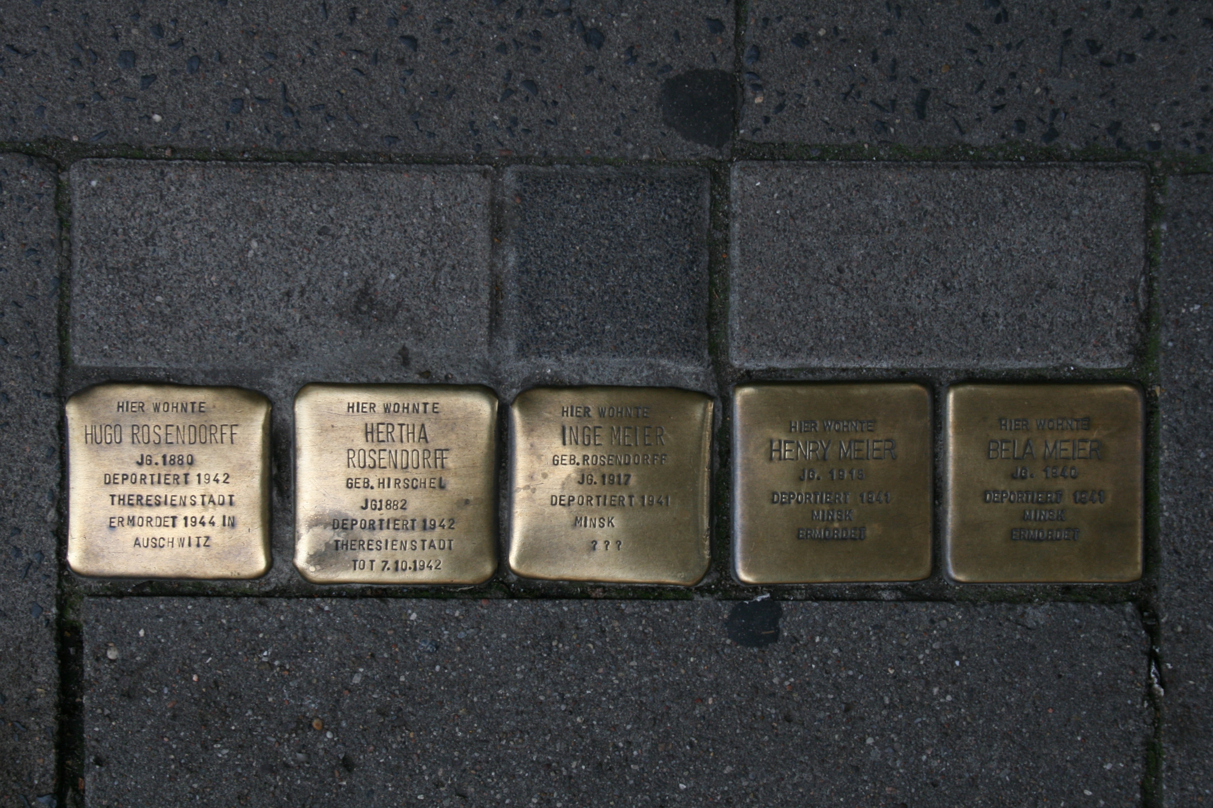 Stolpersteine for the jewish family Rosendorff and Meier in Hamburg-Bergedorf, Ernst-Mantius-Straße 5